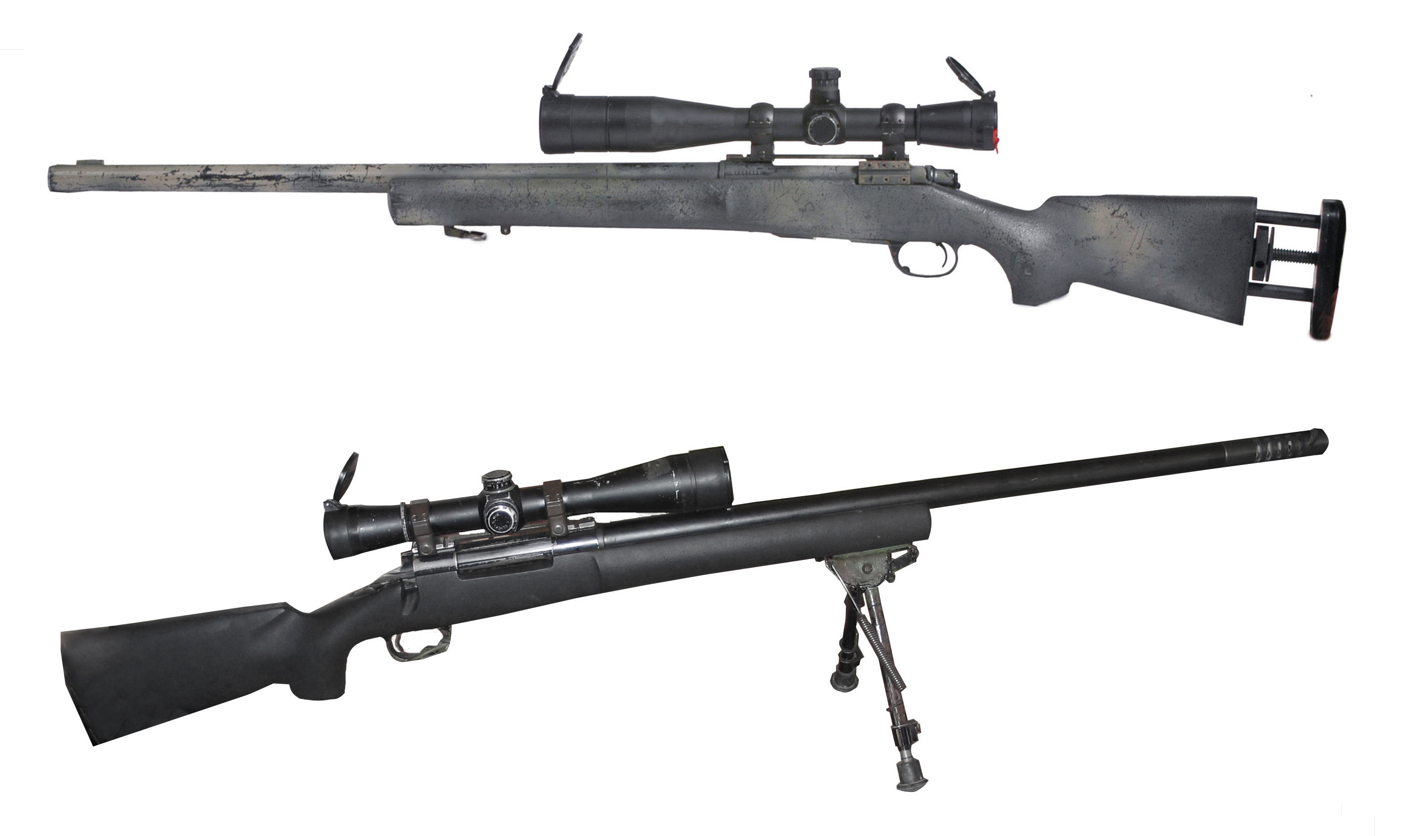 M24 Sniper Weapon System M24 Rifle Primary function: Anti-personnel. Length: 1092 mm (43 in.) Caliber: 7.62x51 mm NATO. Maximum effective range: 800 meters. Accuracy: 0.5 MOA (with IMI 118LR 175gr Match), 0.35 MOA (from benchrest). Design and production: Remington Arms. Primary users: US Army and Israel Defense Forces.